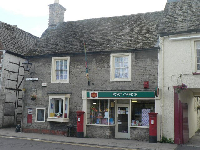 Lechlade: post office and postbox №s GL7 1 and GL7 80 The post office at Lechlade is flanked by two postboxes – both in service – while a third, now blocked up, is presumably the original.